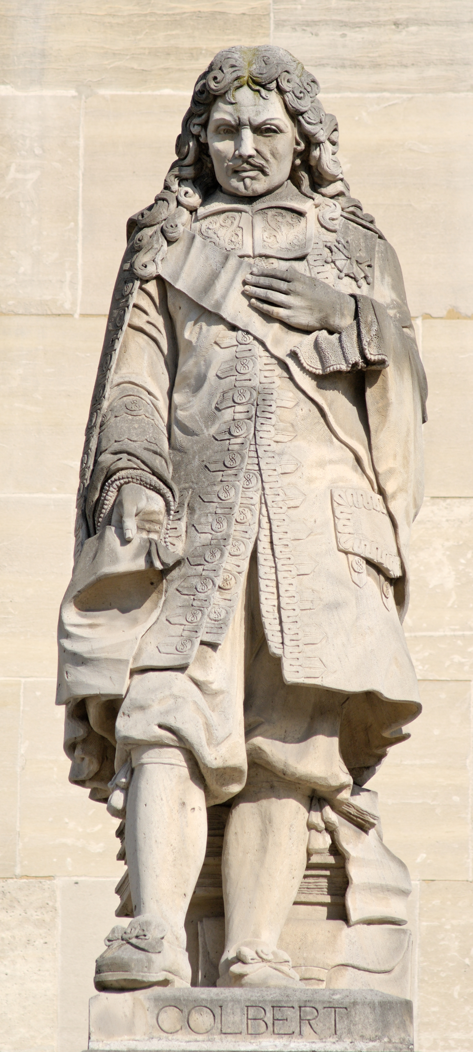 Colbert by Paul Gayrard, aka Gayrard the Younger. Stone, before 1853. 5th statue from Pavillon Turgot to Pavillon Richelieu, Cour Napoléon in the Louvre.